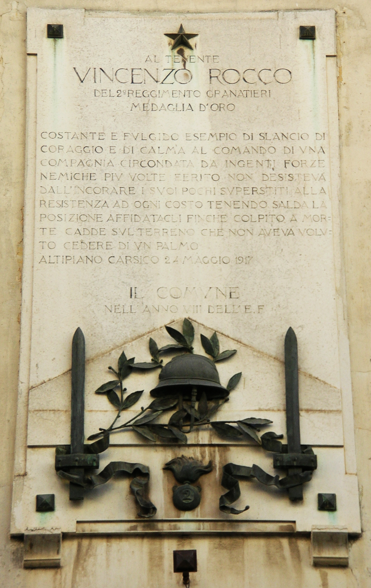 The plaque at the house where Rocco Vincenzo in Torre Annunziata